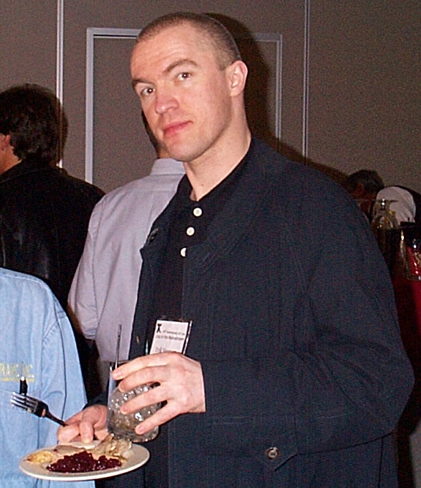 Erik Naggum. Lisp User Group Meeting, 1998. Berkeley, CA.